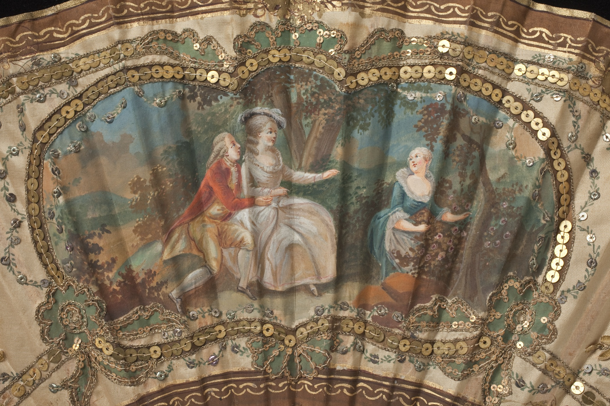 France, circa 1780 Costumes; Accessories Silk plain weave, painted, with silk ribbon, sequins, and metallic-thread embroidery, and bone Purchased with funds provided by Dr. and Mrs. Miguel A. Llanos (M.81.245.4) Costume and Textiles